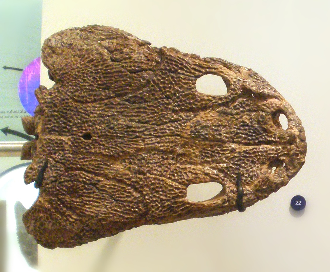 Skeleton of Buettneria perfecta, now synonymized with Anaschisma